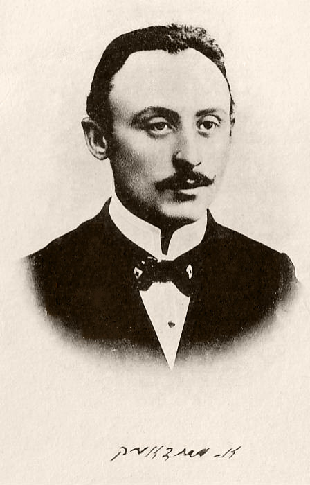 Portrait photo of Hebrew author Eliyahu Maidanik (1881/2-1904)